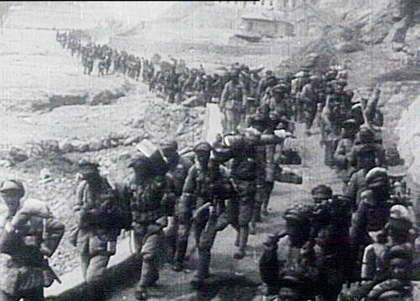 This picture was taken at 1946, the copyright has expired